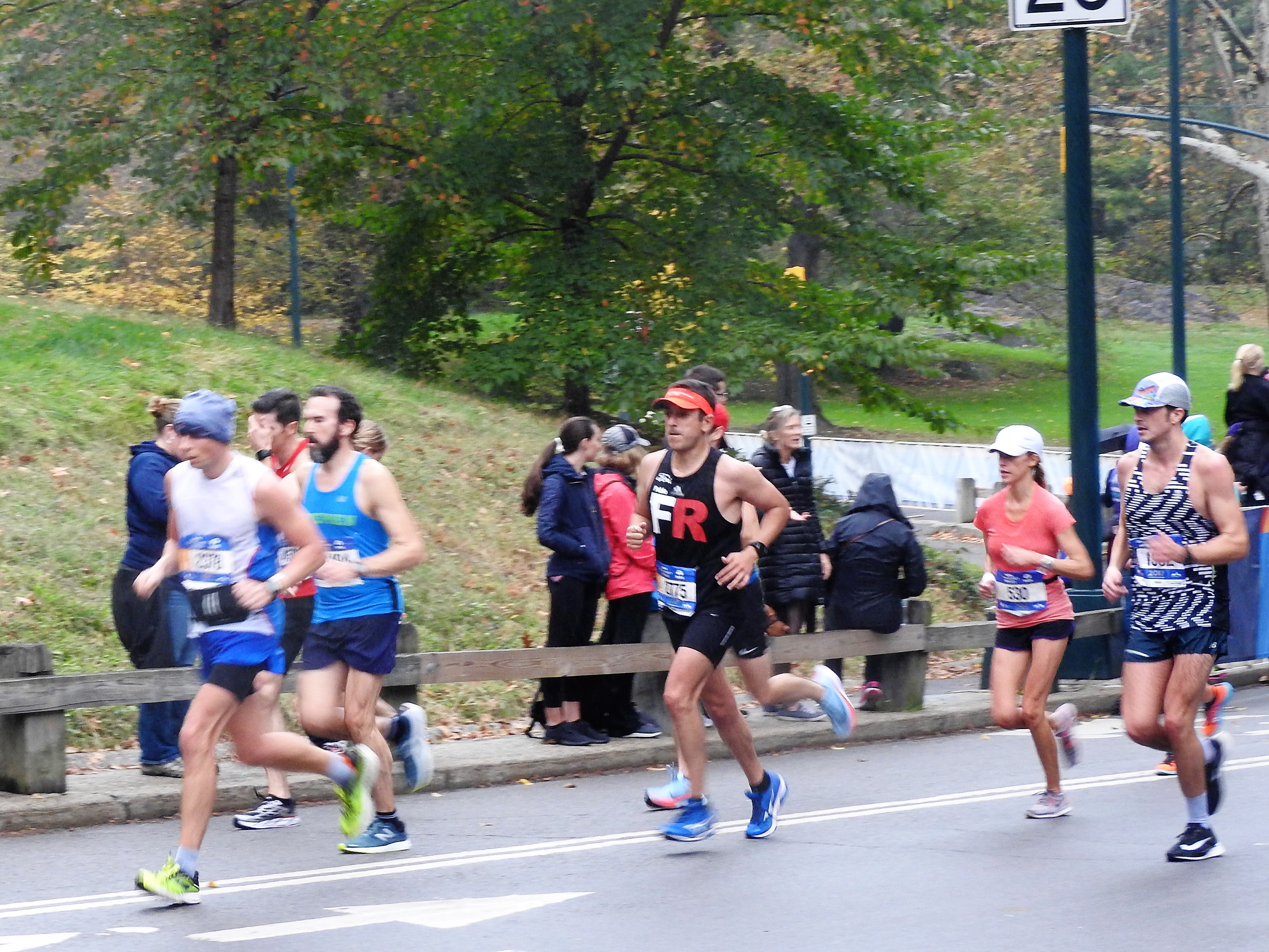 Looking northwest as runners climb from 72nd Street transverse